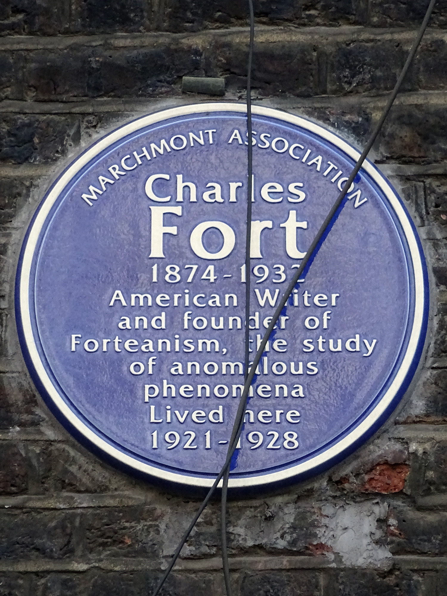 Blue plaque erected on 28th March 2015 by The Marchmont Association at 39 Marchmont Street, London WC1N 1AP